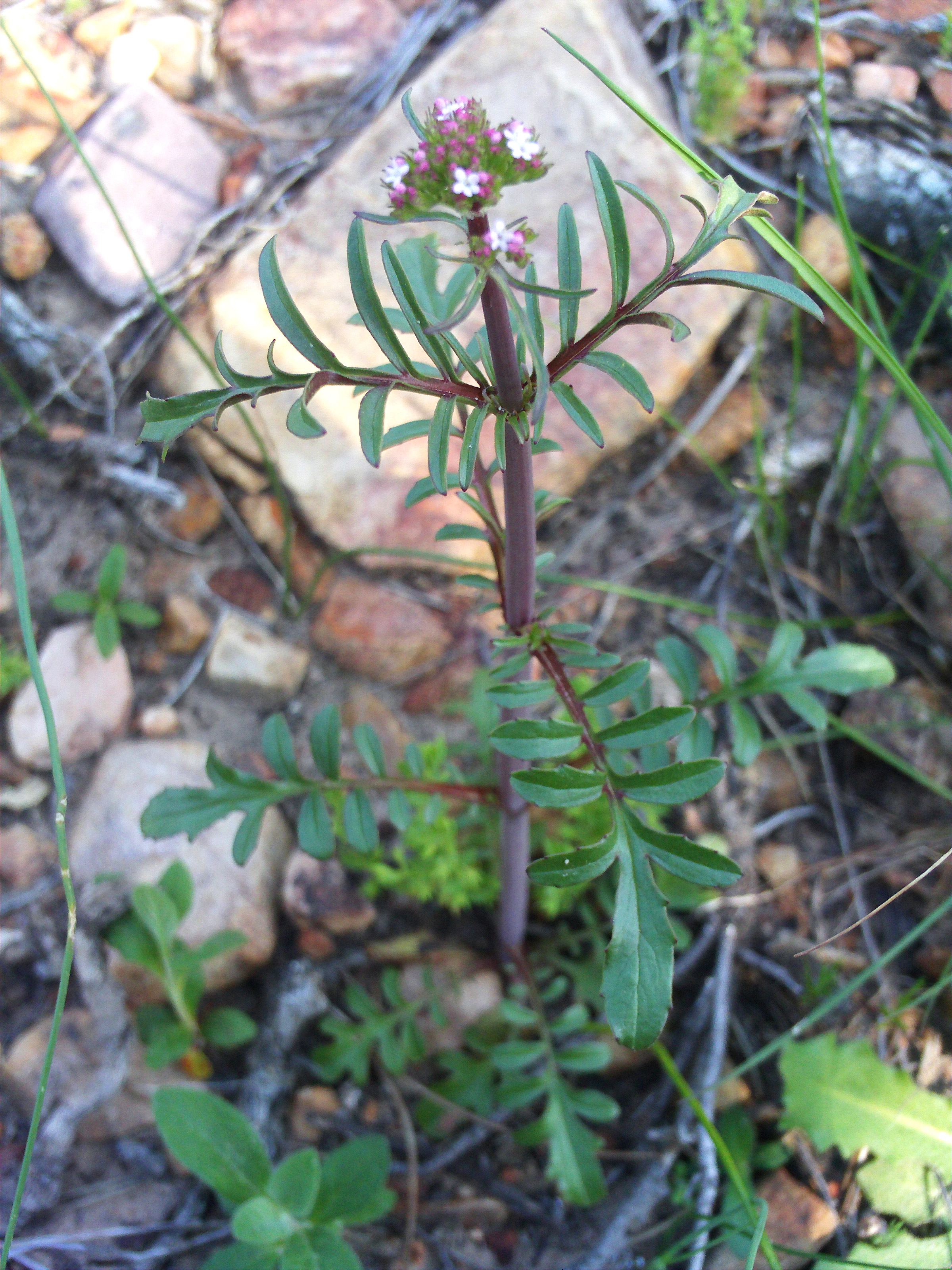 Centranthus calcitrapa habit, Dehesa Boyal de Puertollano, Spain